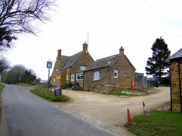 White Swan, Wigginton. Little changed Hook Norton Brewery pub